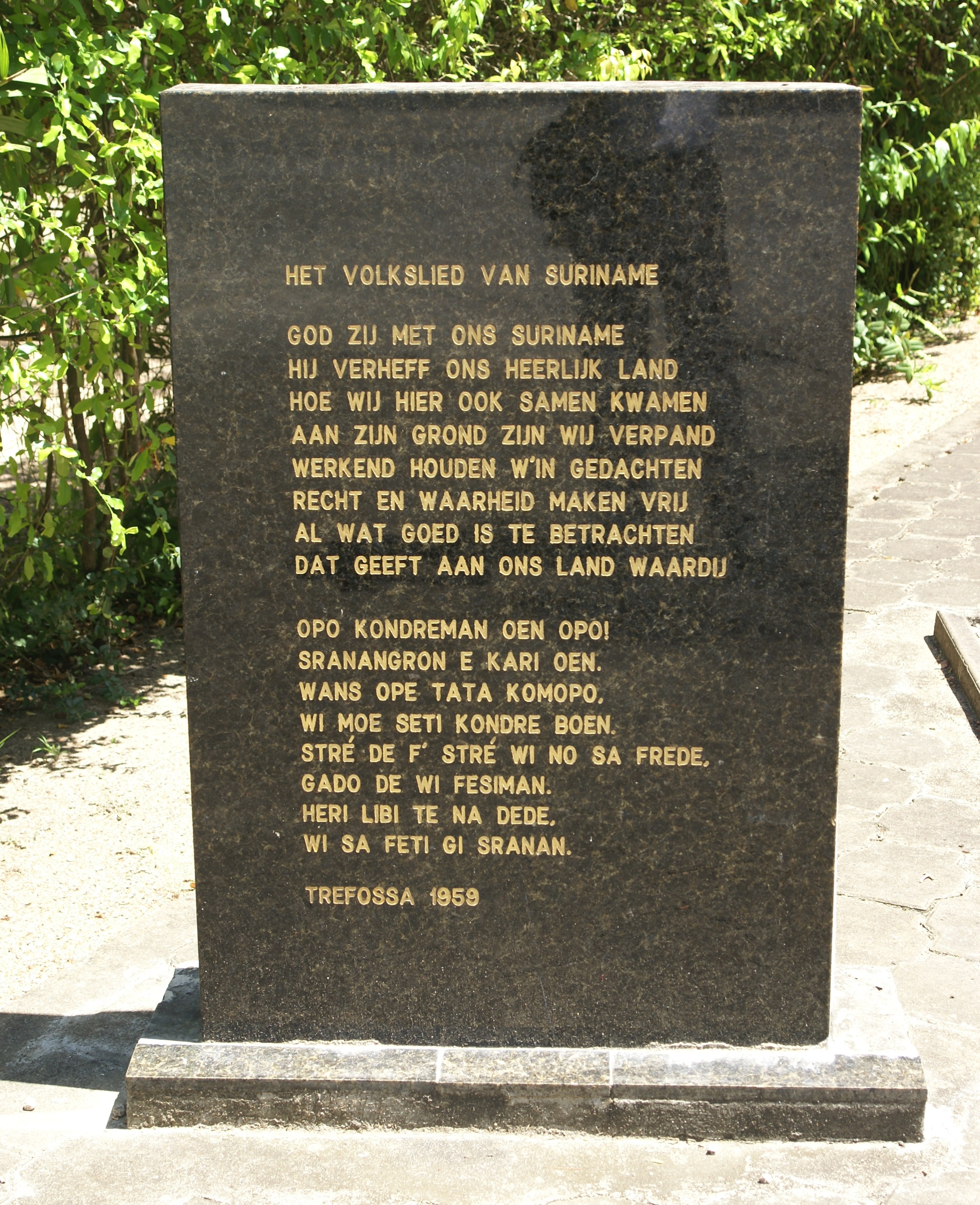 Bust of Trefossa, Kleine Combeweg, Paramaribo, Surinam. By Erwin de Vries, 2012. National anthem of Surinam.